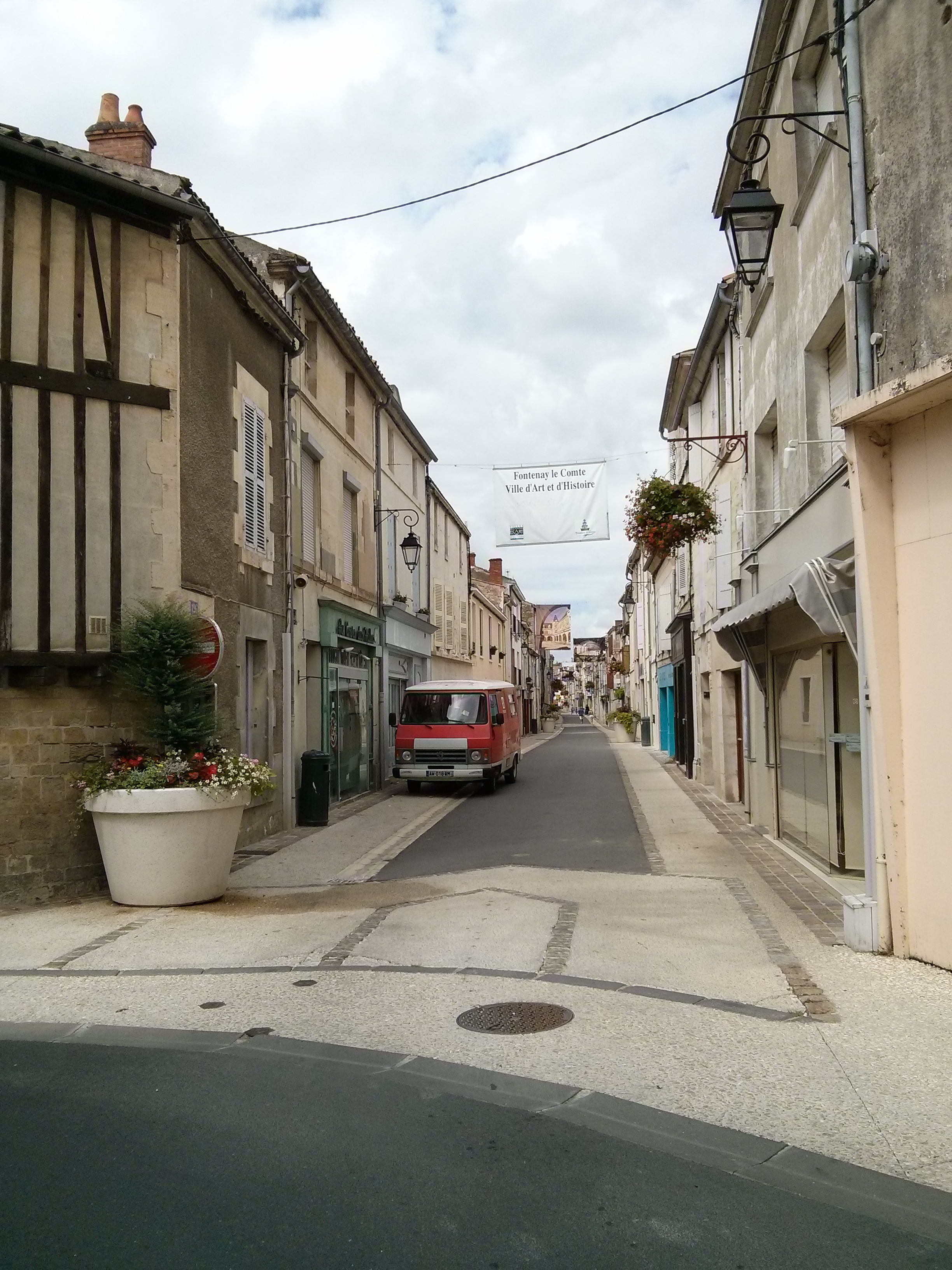 Fontenay-le-Comte scene